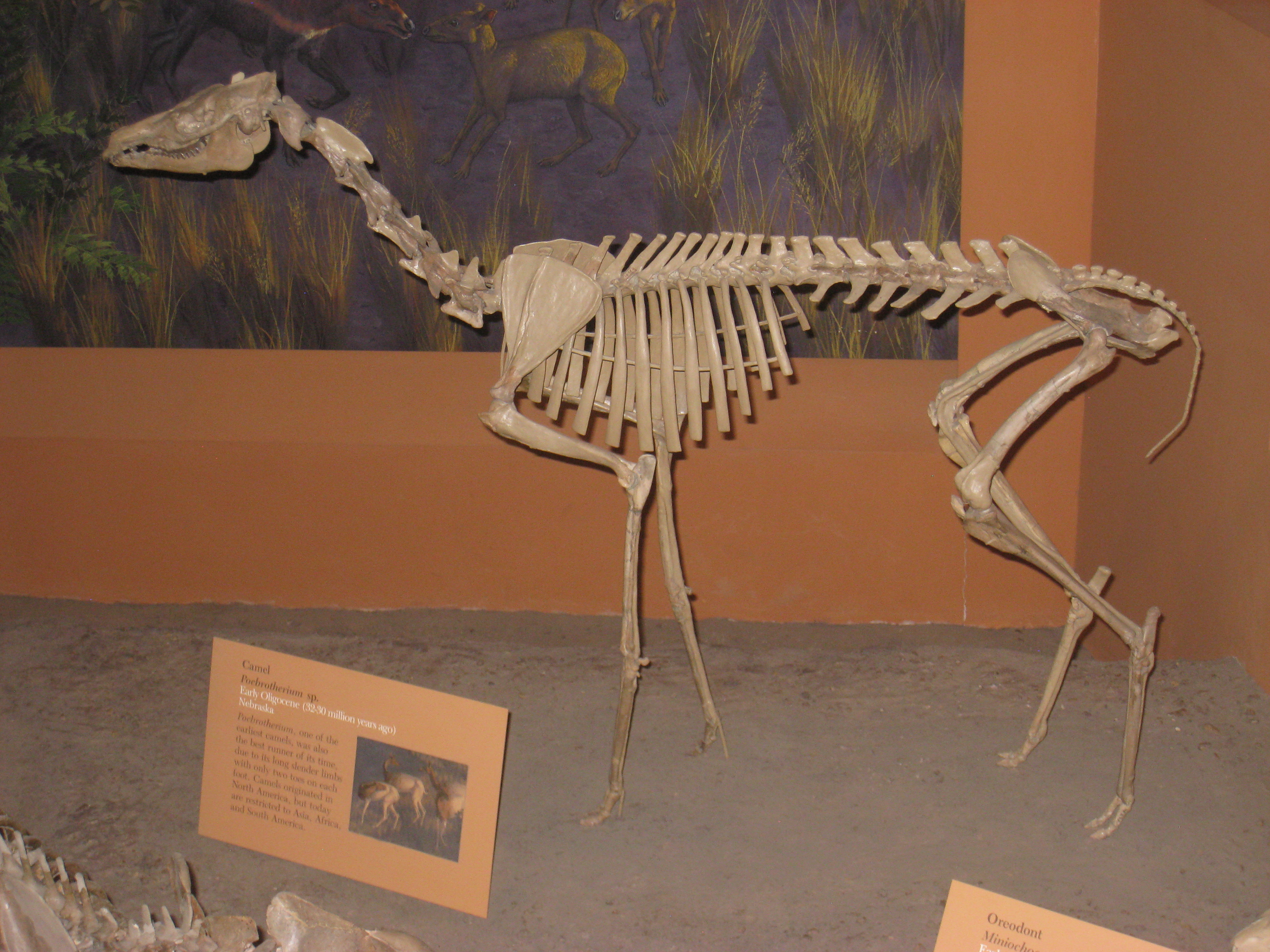 Poebrotherium sp. fossil specimen in the National Museum of Natural History, Smithsonian Institution, Washington, DC, USA.